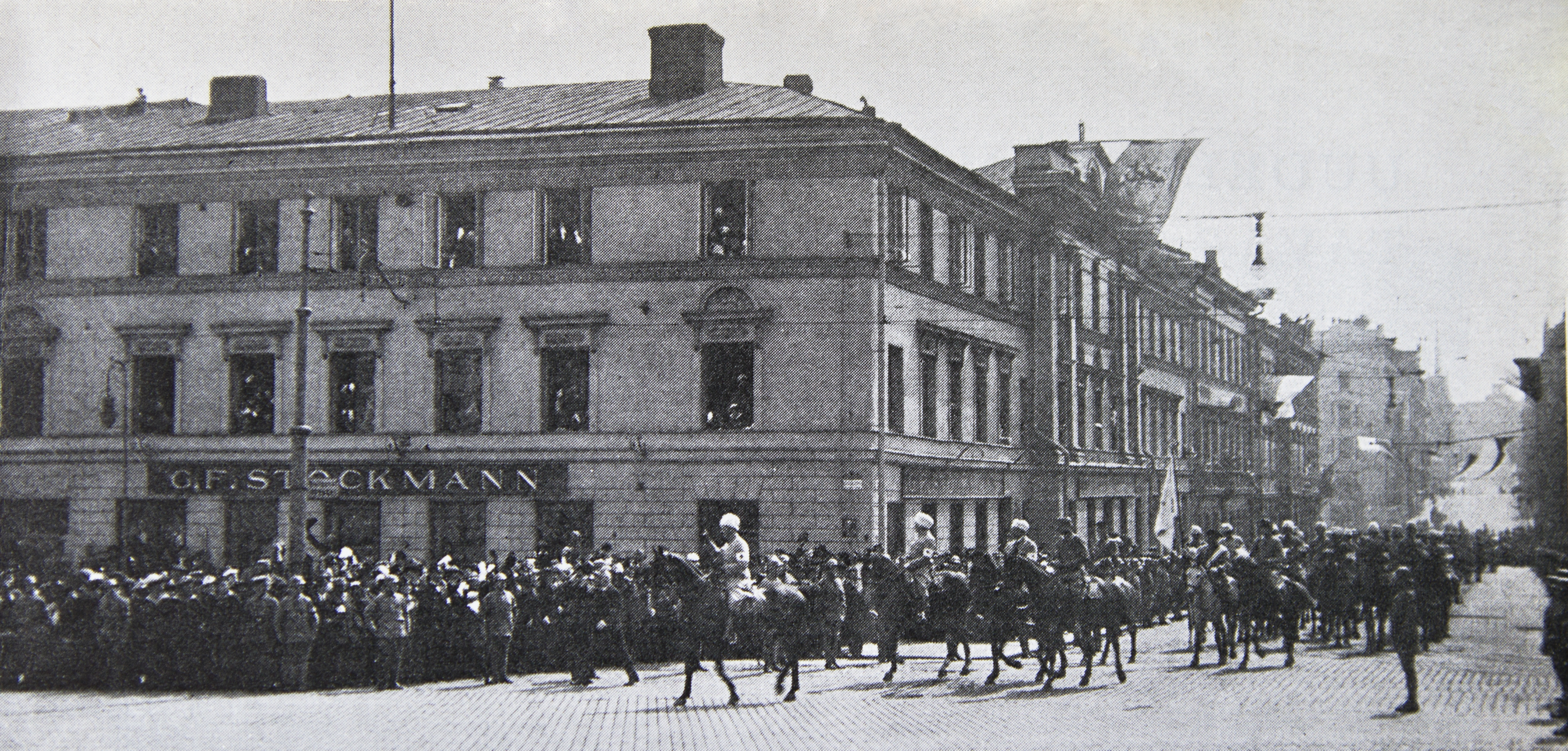 General Mannerheim marching front of Stockmann department store in Helsinki, 16 May 1918